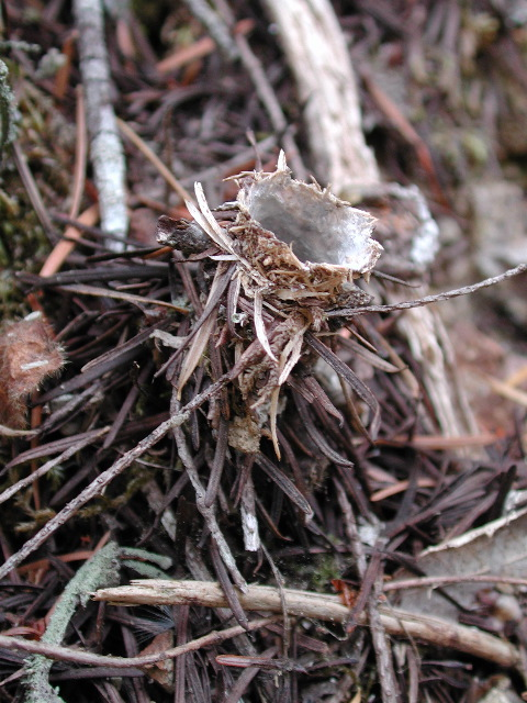 Atypoides riversi turret in northern California.